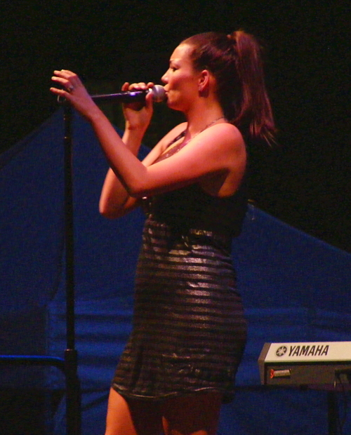 Ex-Australian Idol singer, Ricki-Lee Coulter. Performing in Tea Tree Gully, Adelaide, South Australia